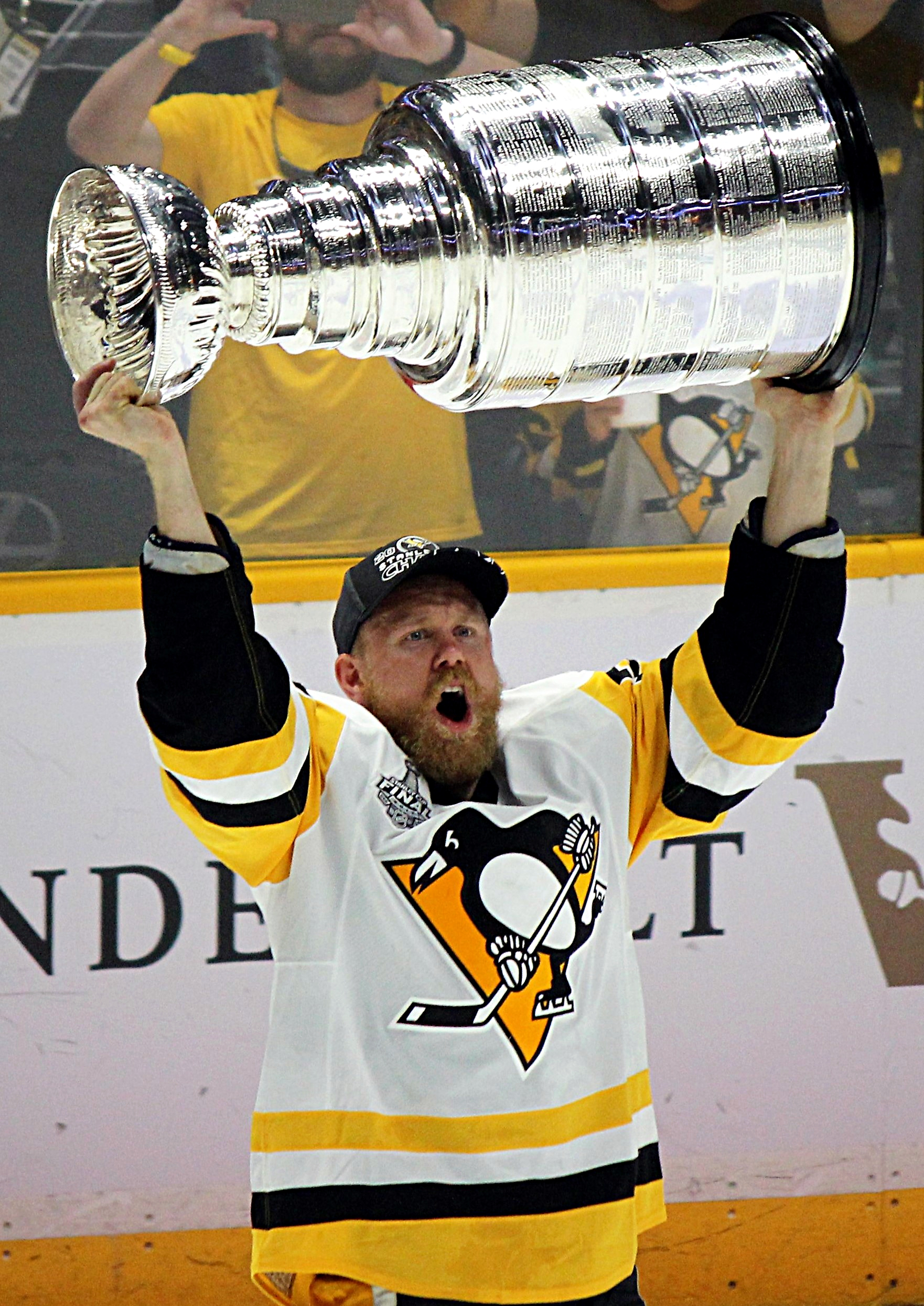 Pittsburgh Penguins forward Patric Hornqvist raises the Stanley Cup, June 11, 2017, at Bridgestone Arena in Nashville, TN.